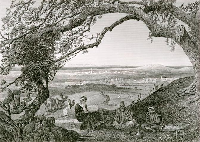 Gaza.